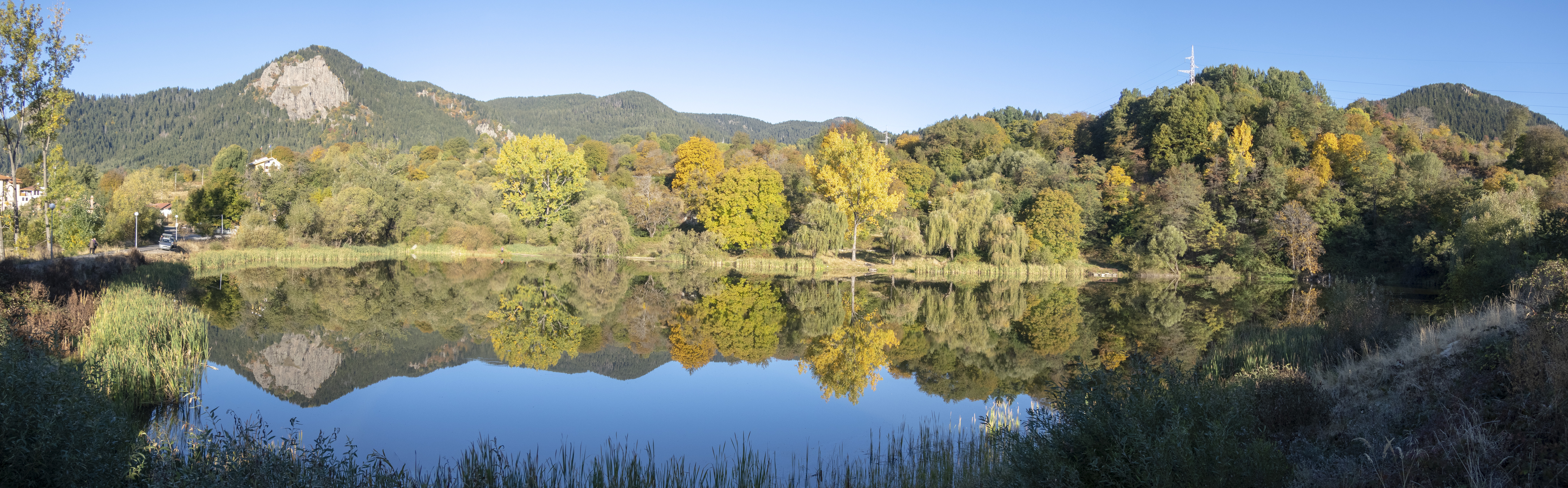 Smolyan Lakes